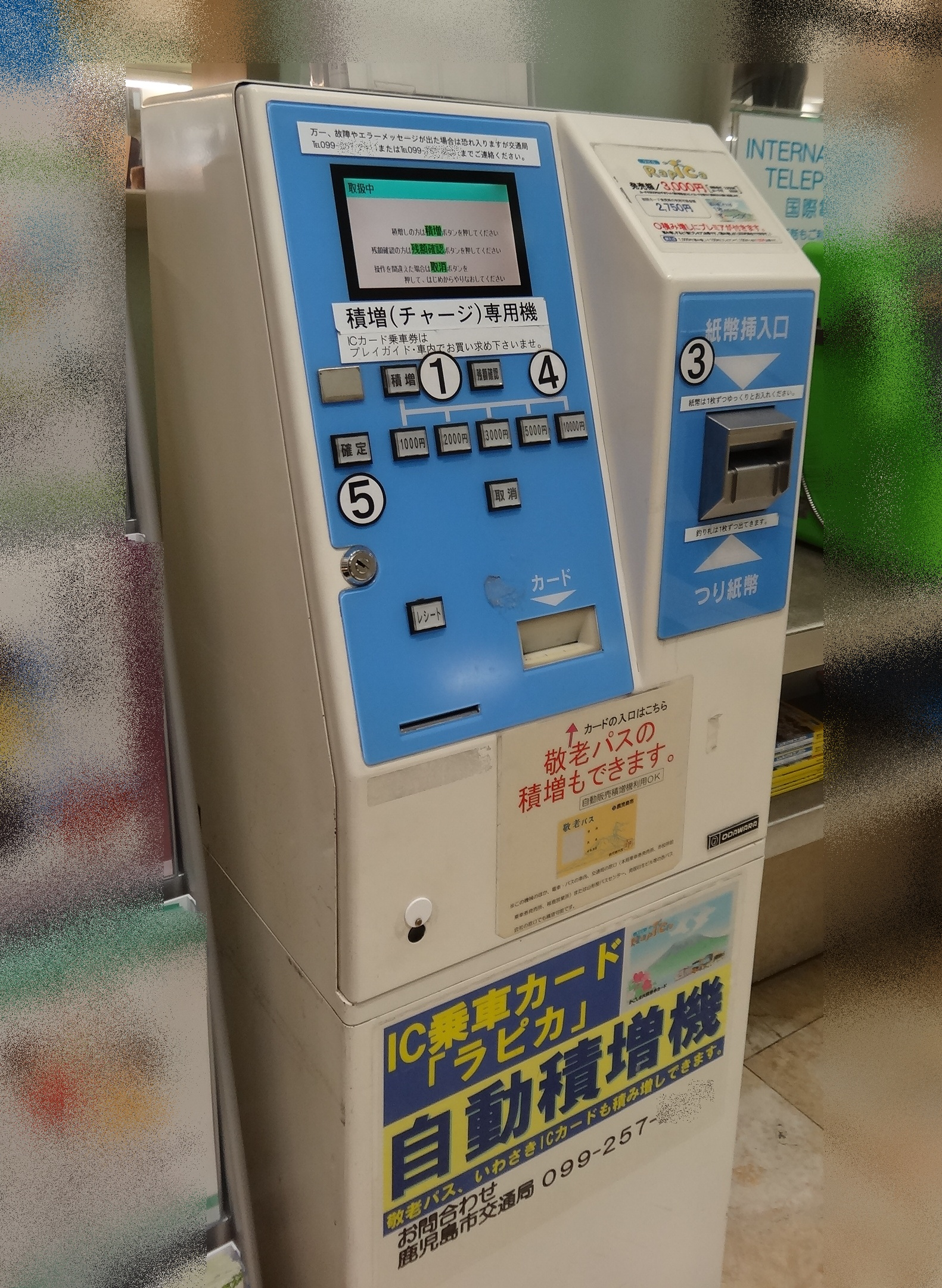 RapiCa Charger in Kagoshima Prefecture, Japan.